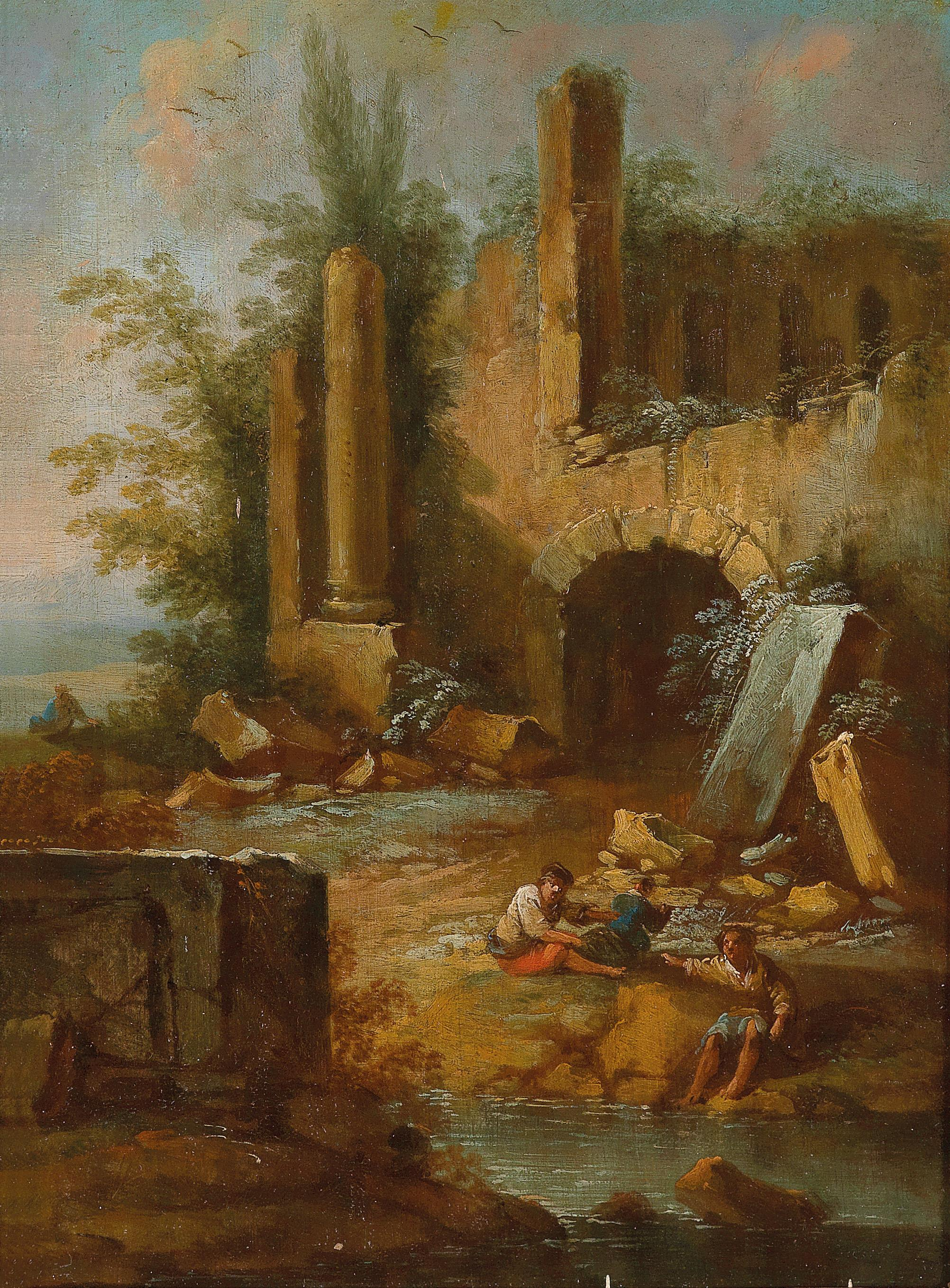 Panel painting 23x17cmm, Landscape with two man in front of roman ruins.